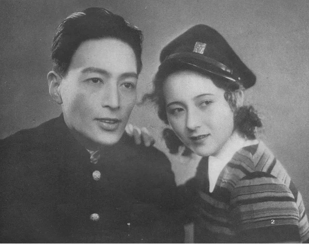 Jirō Shirota and Yukiko Inoue in Haru wa gofujin kara (春は御婦人から) directed by Yasujirō Ozu - 1932